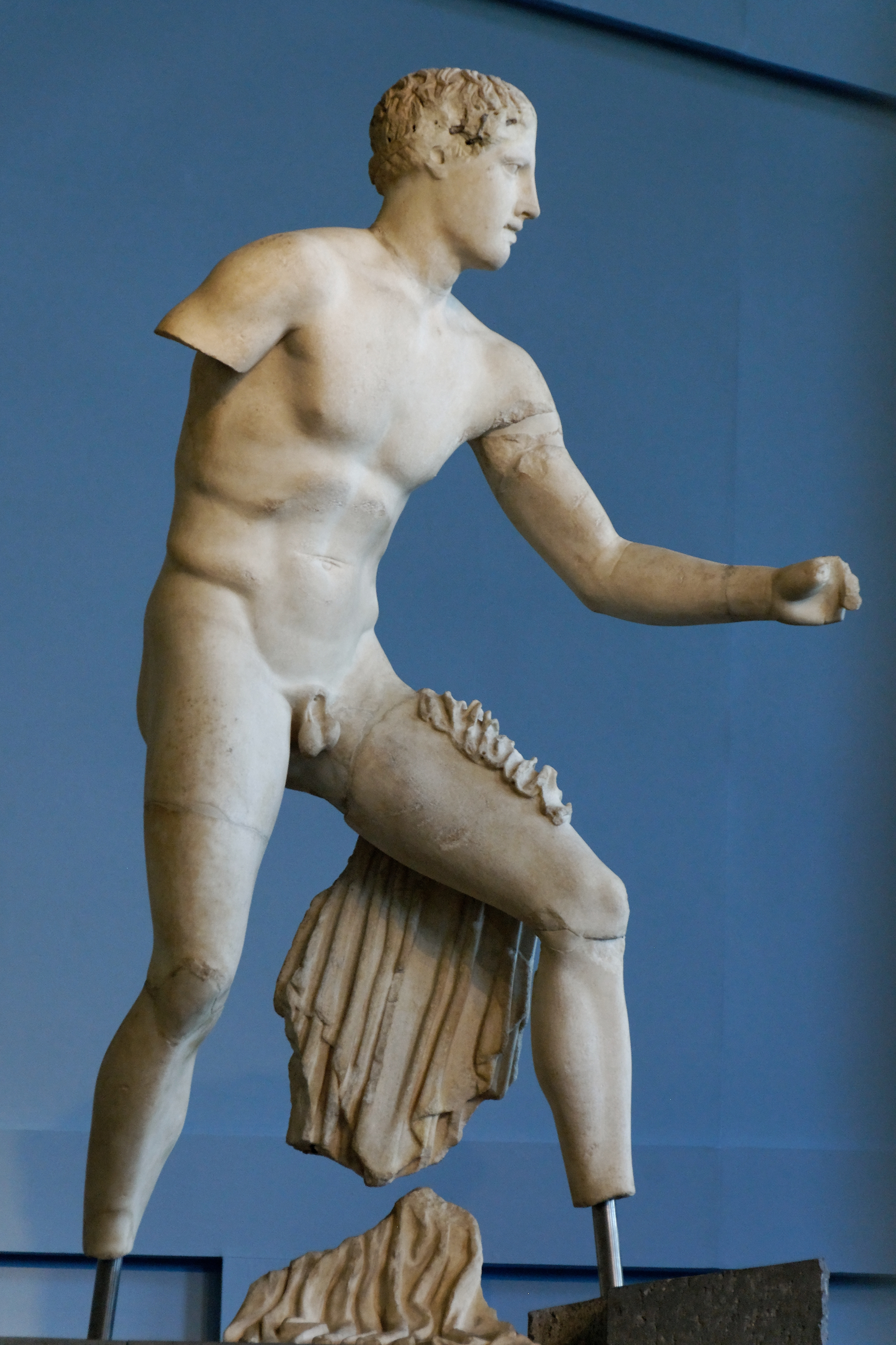 Theseus, part of an Amazonomachy, pediment of the temple of Apollo Sosianus in Rome. Parian marble, ca. 425–420 BC.